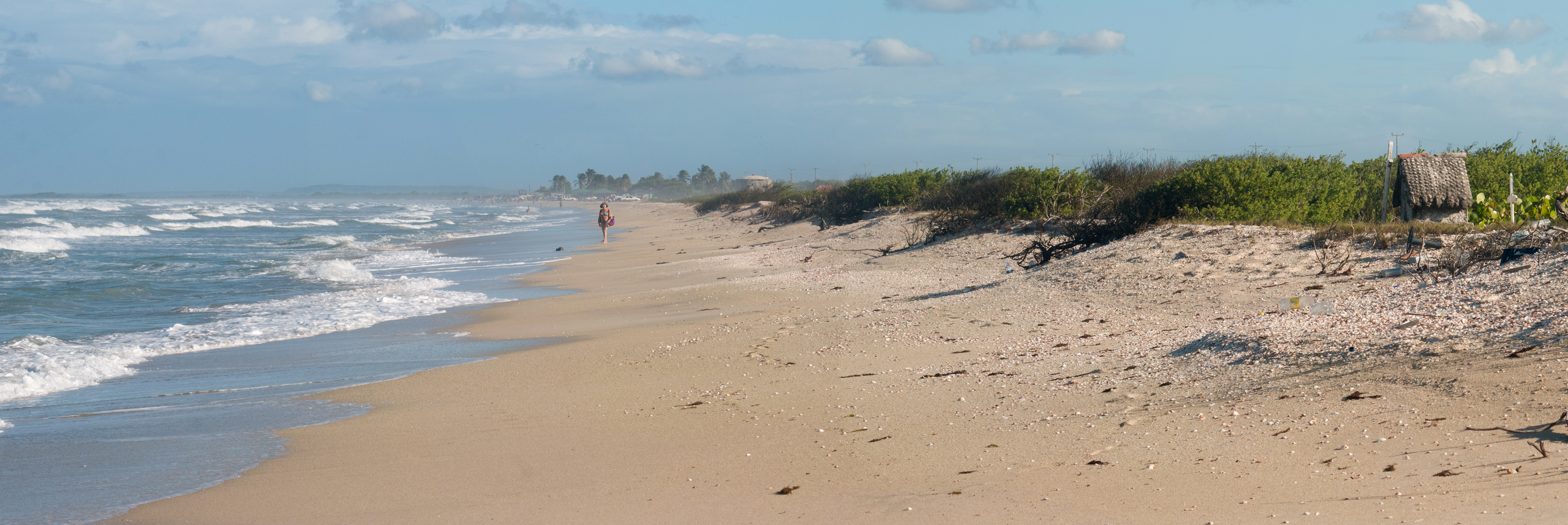 La Restinga Beach